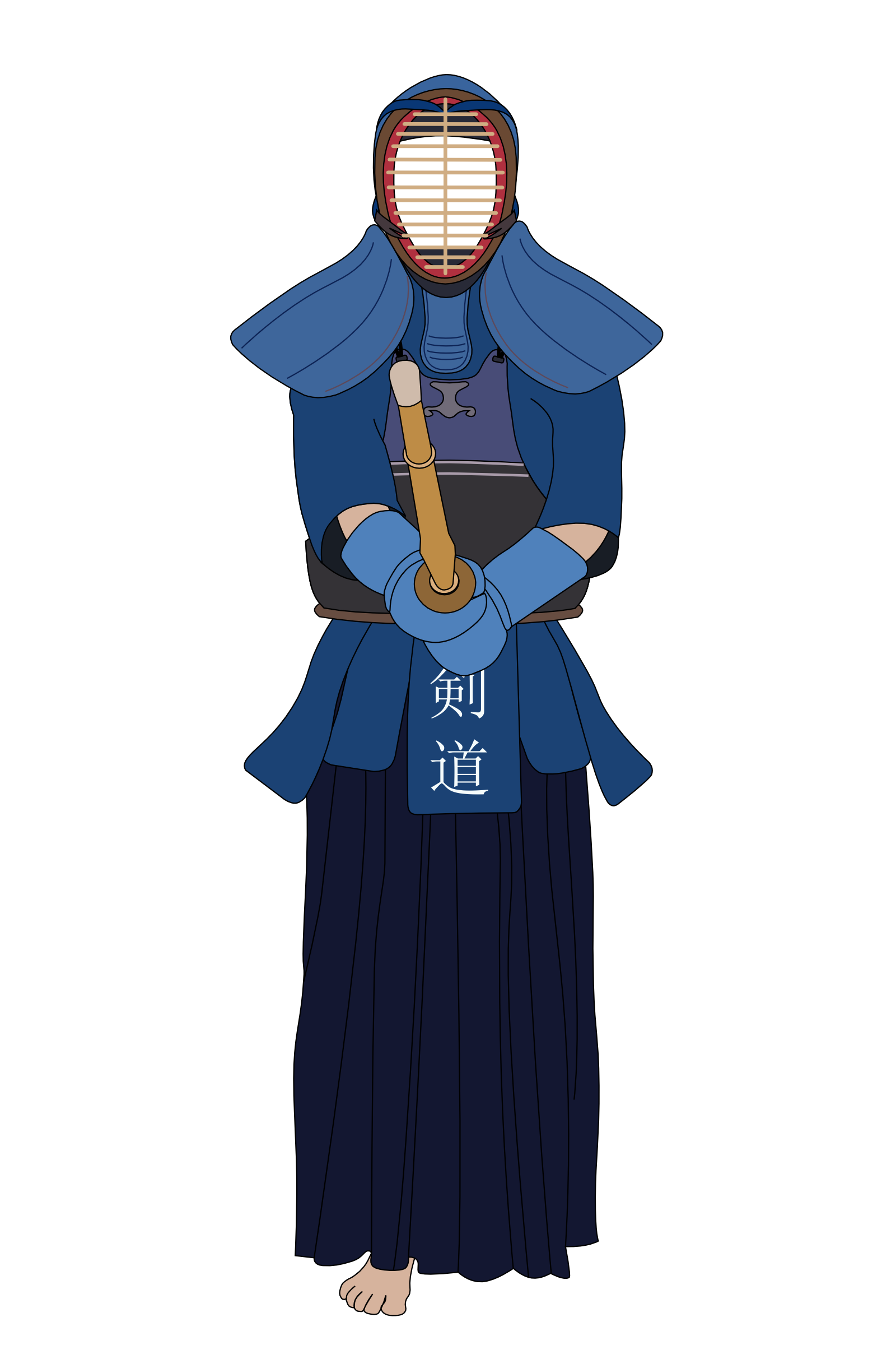 Plain Kendo figure for whatever you want to do with it. In the Tare it says simply "Kendou" in Kanji, as to show where the name of the wearer is written. Made by Ningyou.